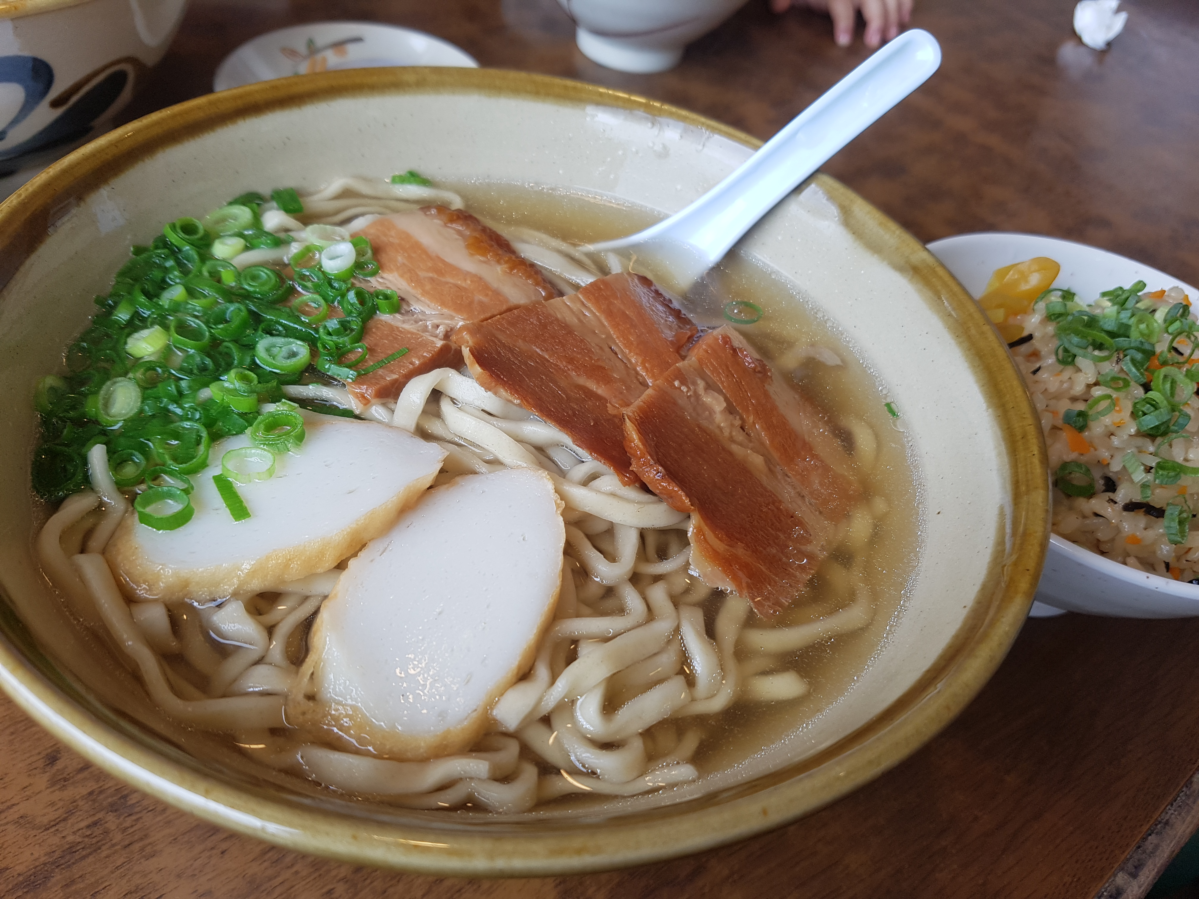 Okinawa soba and mixed rice